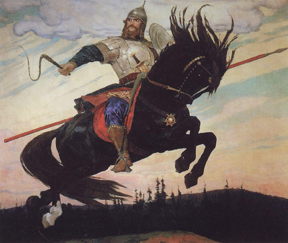 Knight's ride